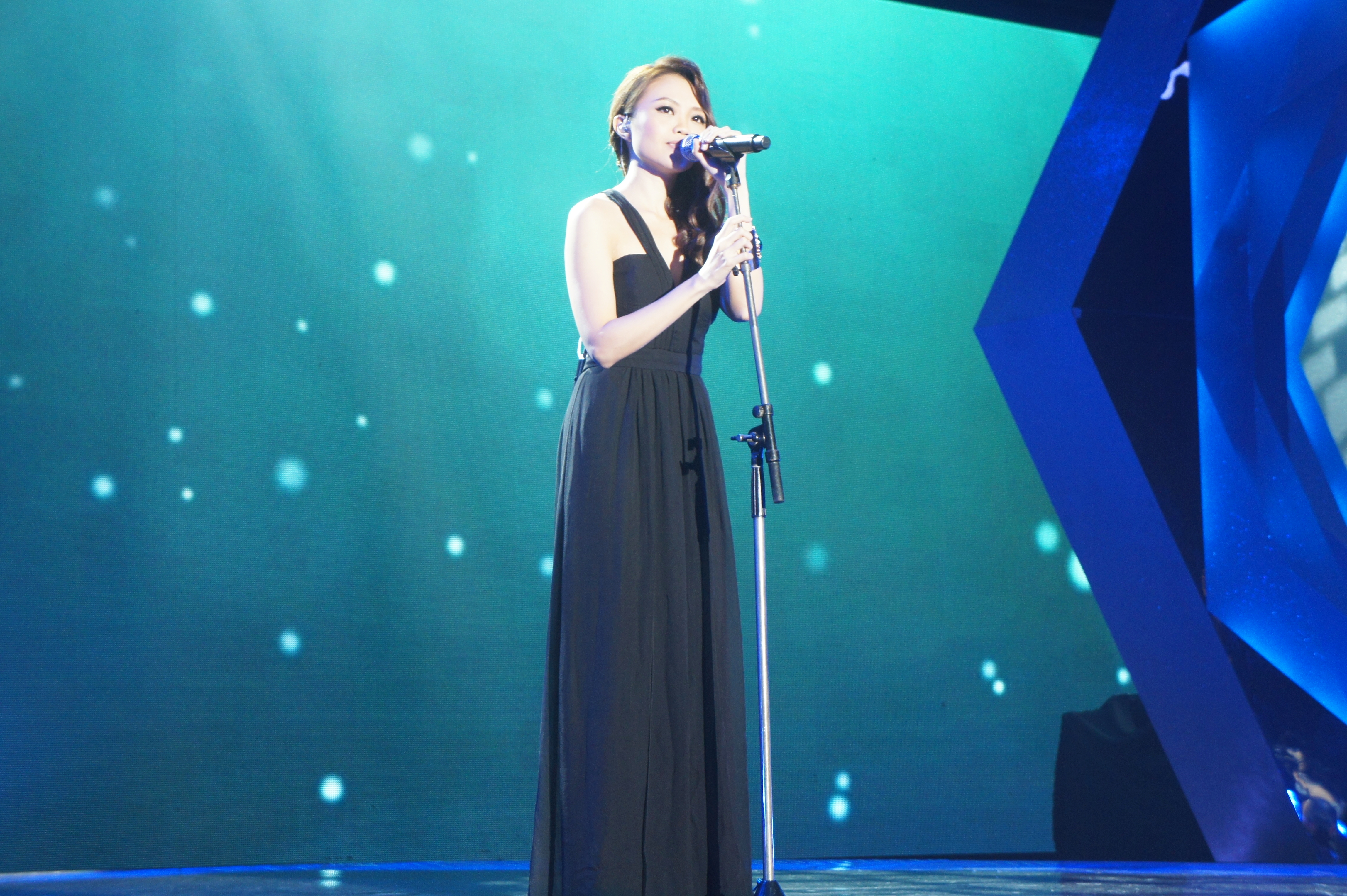 Serene Koong 龚芝怡 performing her song “幸福不难” at Singapore Hit Awards (新加坡金曲奖）.